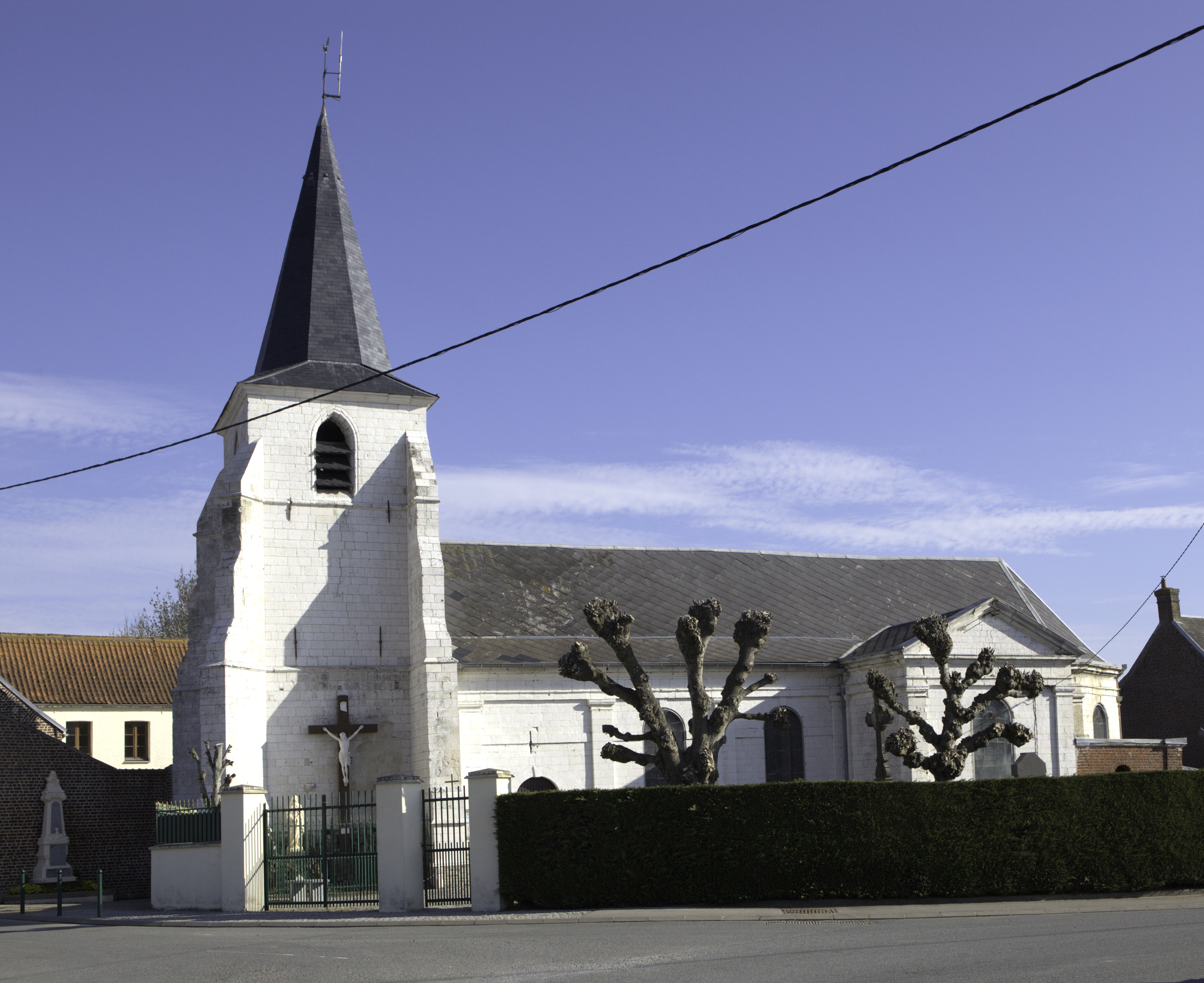 Salperwick church